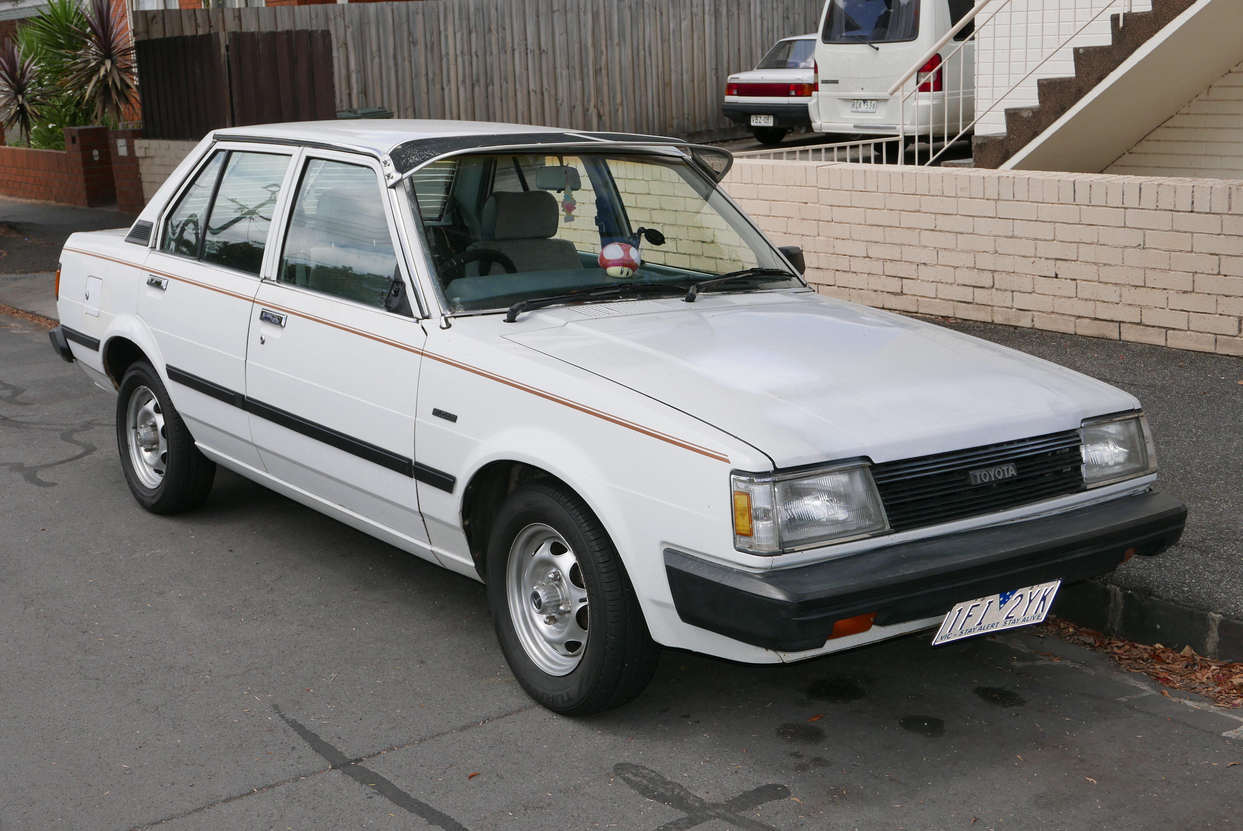 1984 Toyota Corolla (KE70) CS sedan. Photographed in Brunswick, Victoria, Australia. Vehicle registration enquiry results Jurisdiction Victoria Registration 1FI2YK Chassis code KE70E9756874 Engine code 4K9106337 Compliance date 1984-07 Year of manufacture 1984